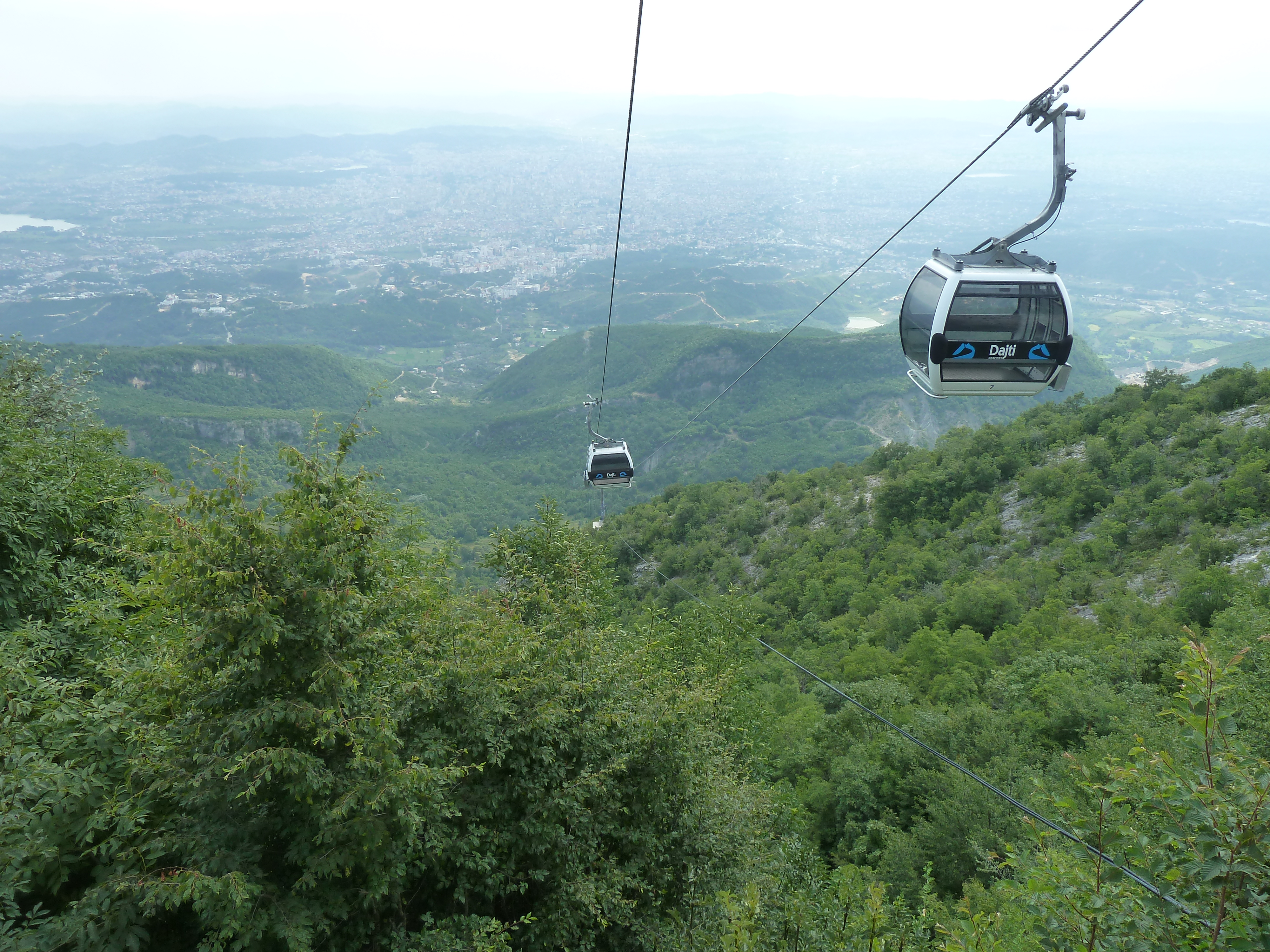 Dajti-Express, Tirana. View from gondola.